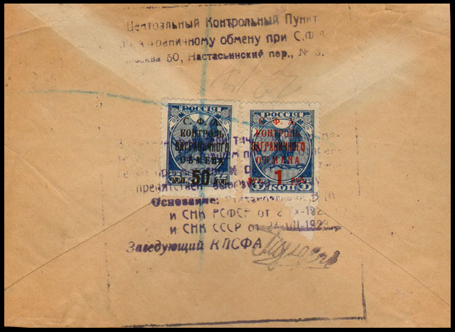 USSR control stamps on the item of post, 1932